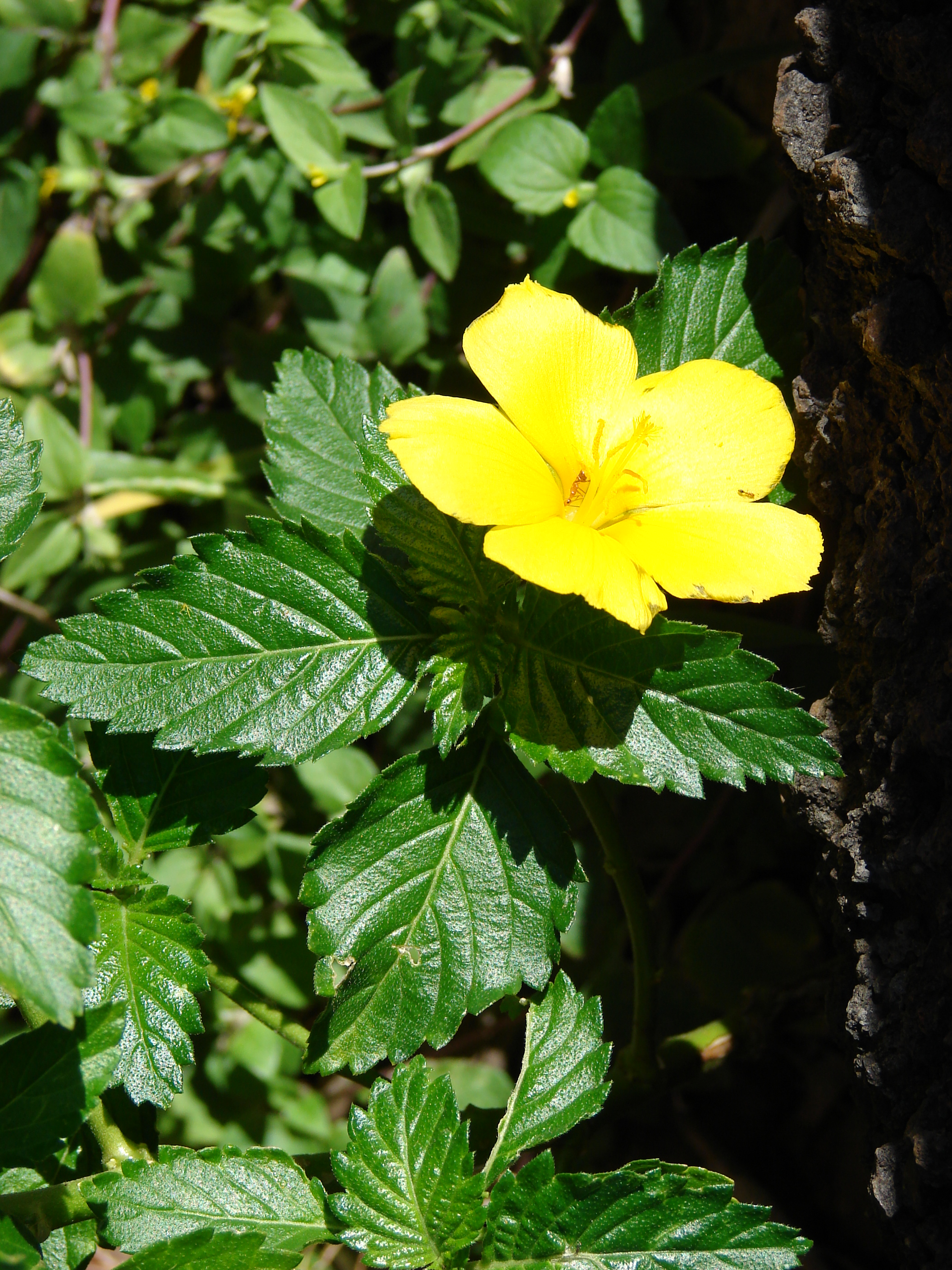 Turnera ulmifolia (habit with flower). Location: Maui, Holy Rosary Church Baldwin Ave